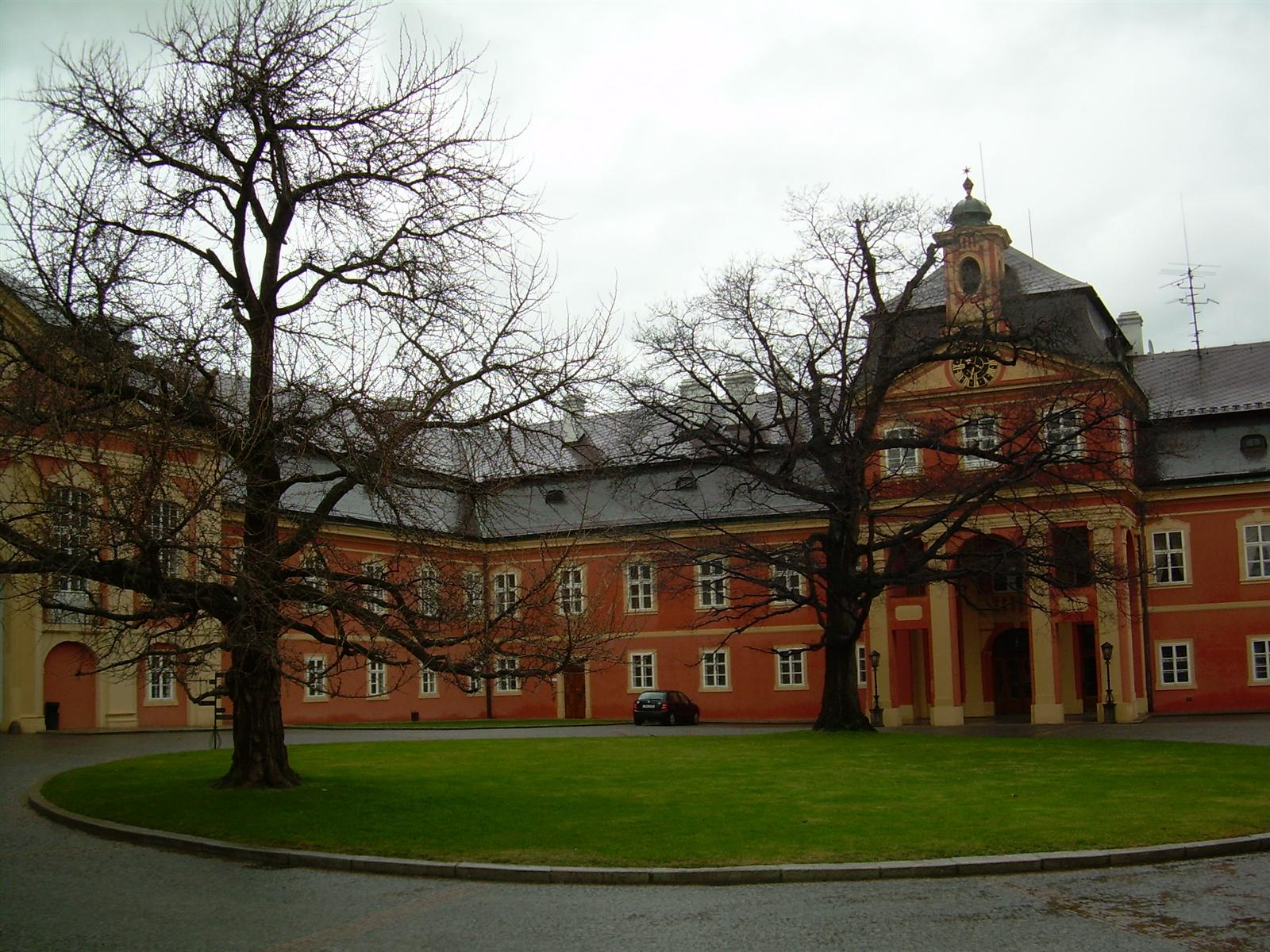 Wuadrangle of Dobříš Castle